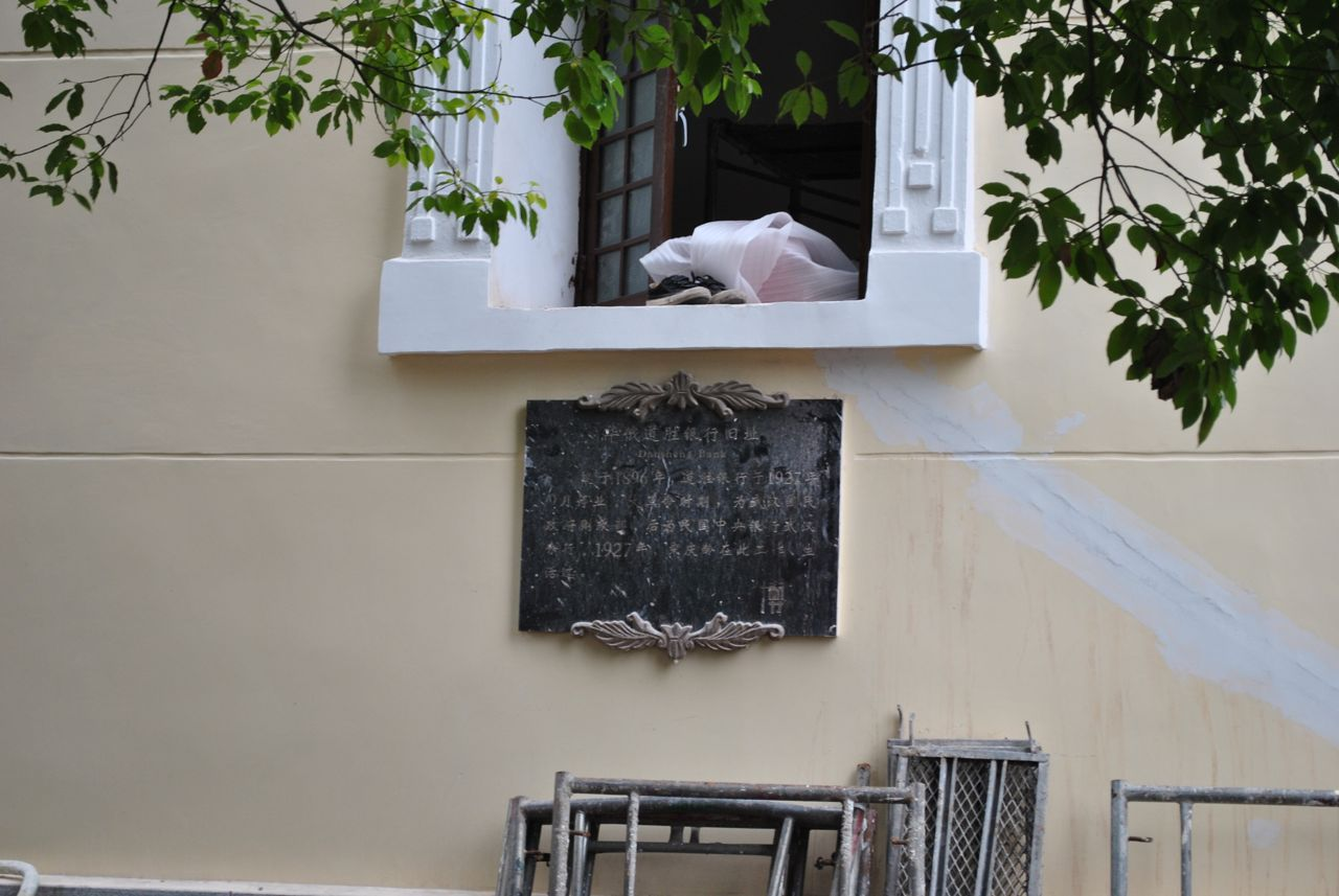 华俄道胜银行大楼